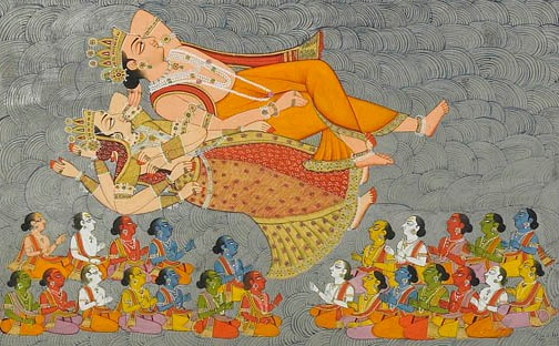 The Creation of the Cosmic Ocean and the Elements (detail), folio 3 from the Shiva Purana, c. 1828. (3rd paintings). The royal collection of the Mehrangarh Museum Trust, Jodhpur.